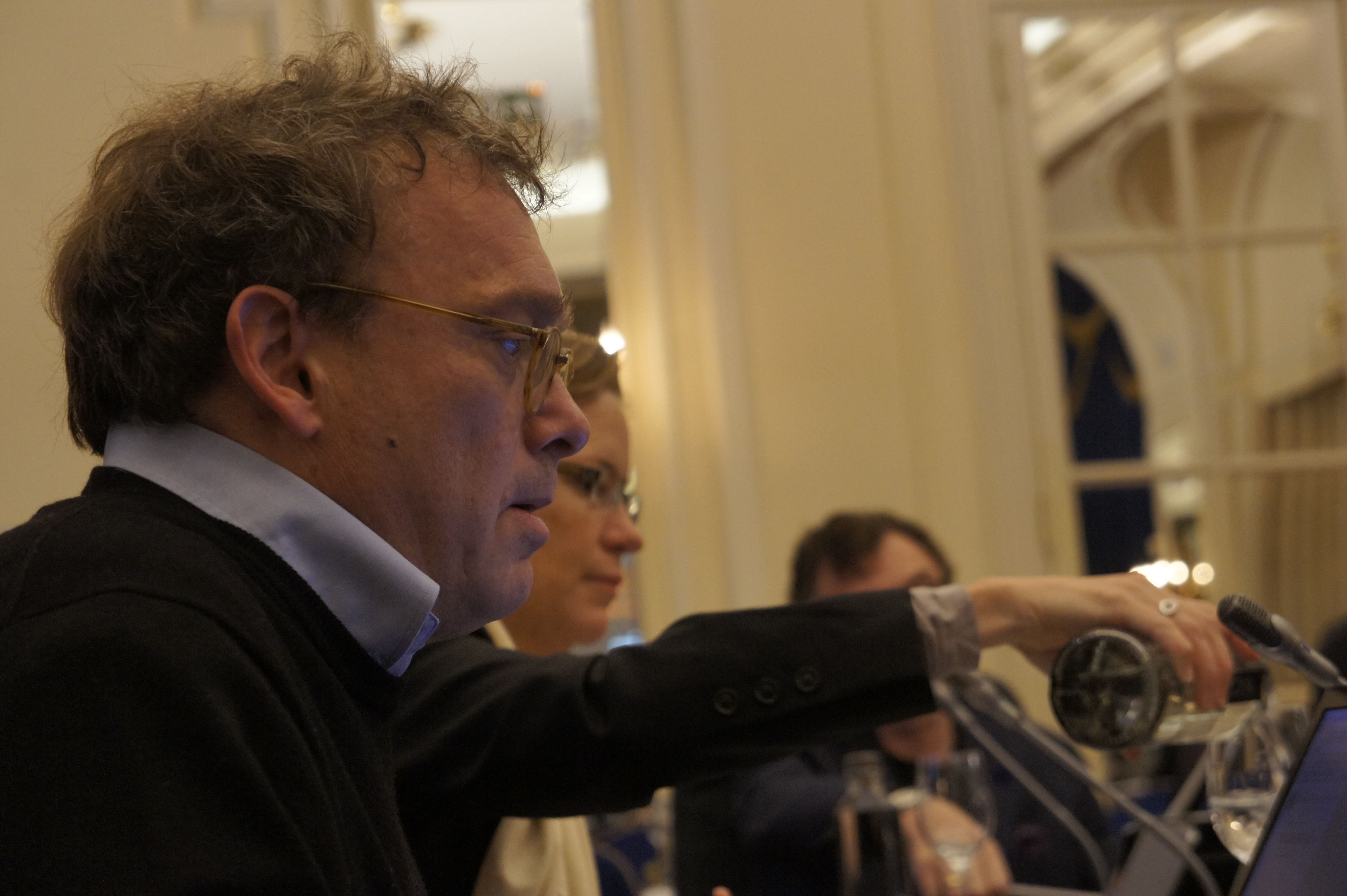 Adrian Wooldridge (born November 11, 1959) is the Management Editor and, since 1 April 2017, the 'Bagehot' columnist for The Economist newspaper. He was formerly the 'Schumpeter' columnist. Until July 2009 he was The Economist's Washington Bureau Chief and the 'Lexington' columnist.